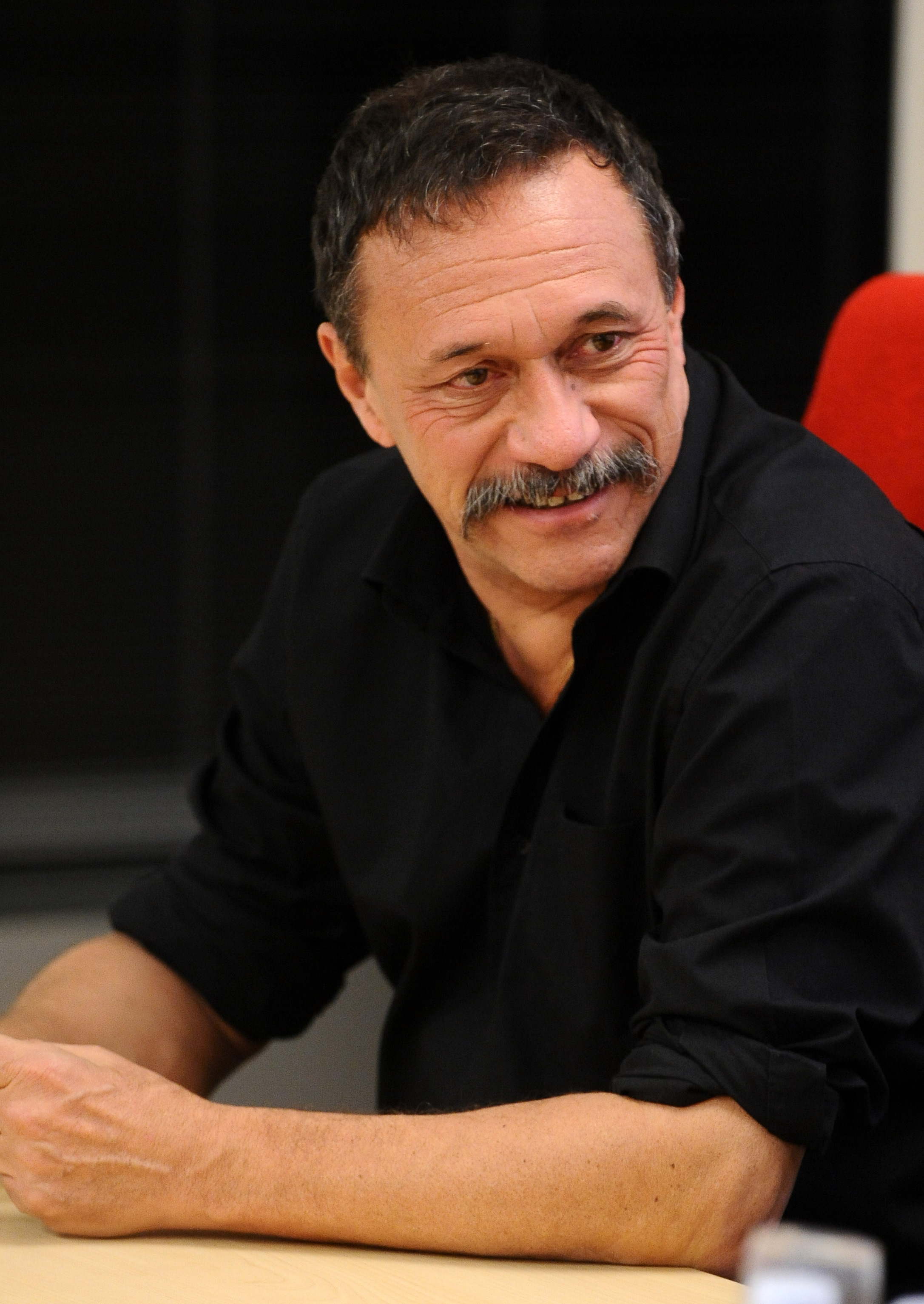 Augusto Grandi in Riva del Garda.